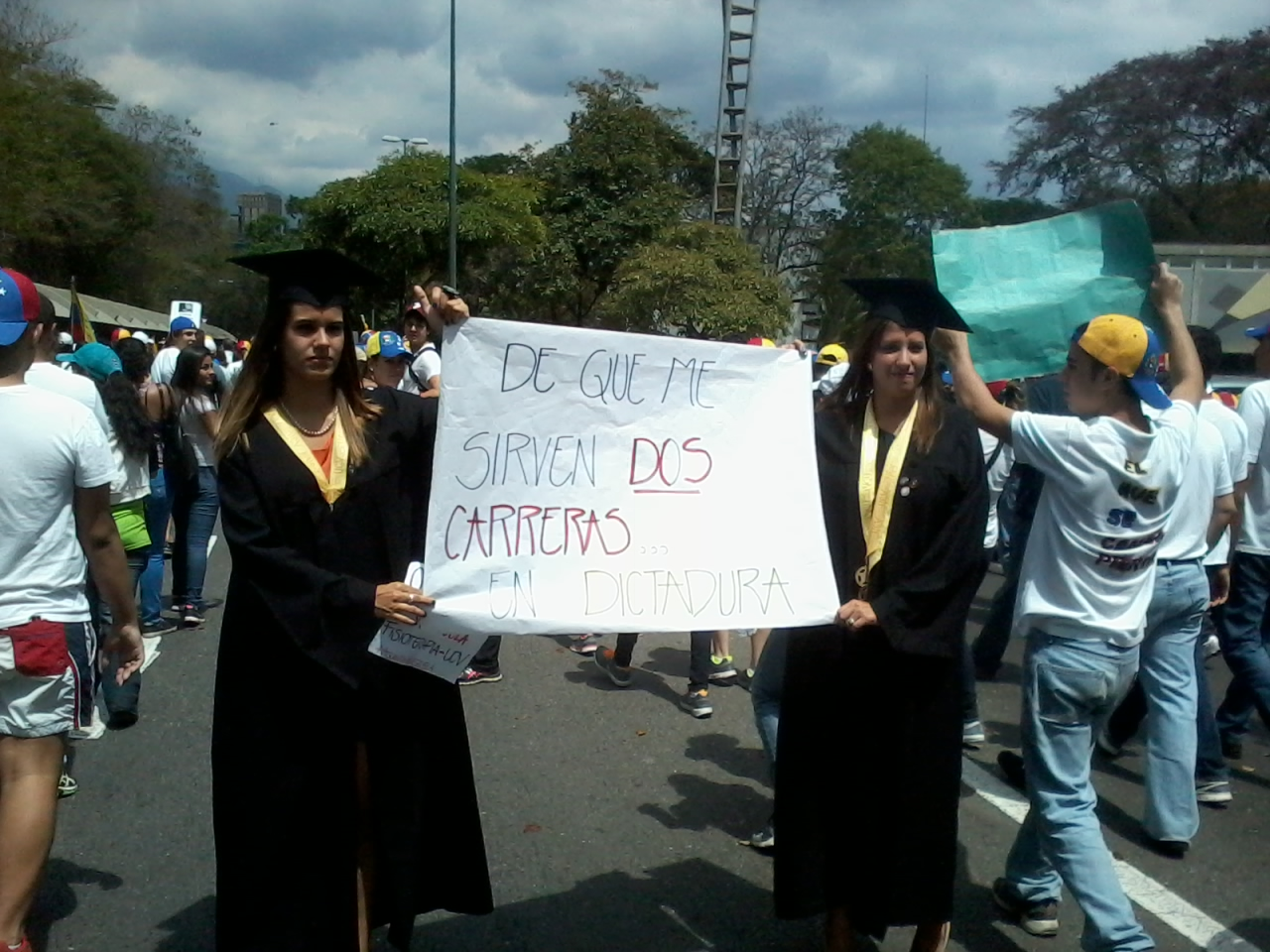 Two graduates protesting against the government. The sign says: "What use do I have of two careers in a dictatorship?".